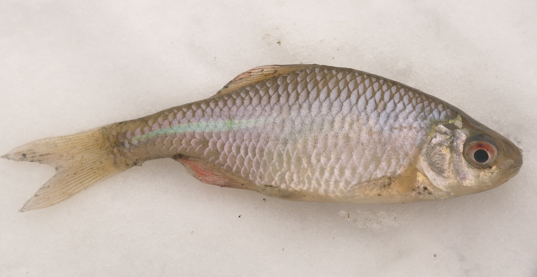 Male Rhodeus sericeus from the Betuwe, the Netherlands, end of winter Now Rhodeus amarus. Dysmorodrepanis (talk) 17:42, 9 August 2008 (UTC)